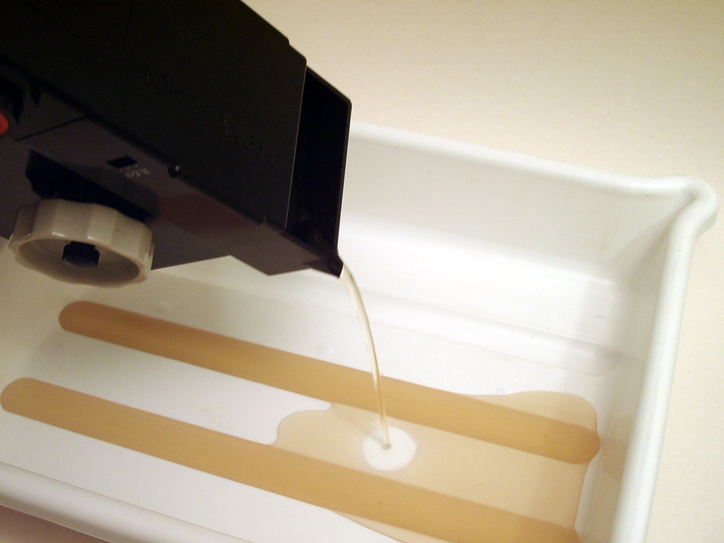 Agfa Rondinax 35 U / Filmentwickler ausgiessen- Agfa Rondinax 35 U / Pouring out the film developer.